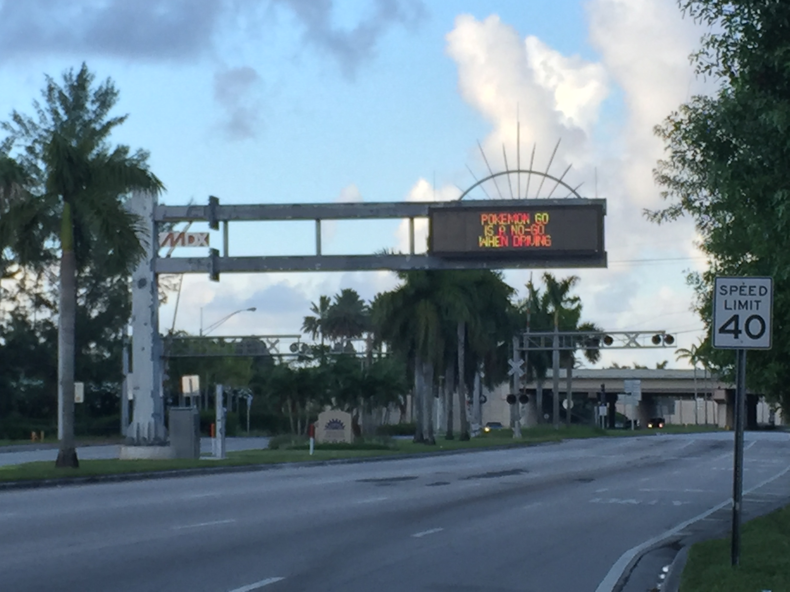 A Variable-message sign along NW 107th avenue near the intersection with NW 12th street in Fontainebleau, Florida, warning people to not play Pokémon Go while driving.